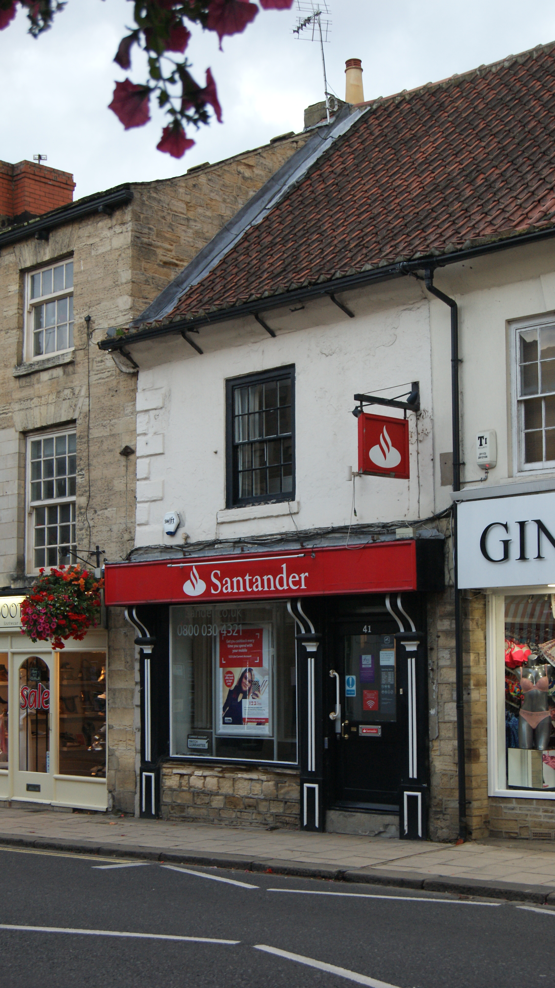 Santander (formerly Abbey National), High Street, Street, Wetherby, West Yorkshire. This also incorporates the services of the former Bradford and Bingley which was on Westgate. Taken on the evening of Wednesday the 26th of July 2017.